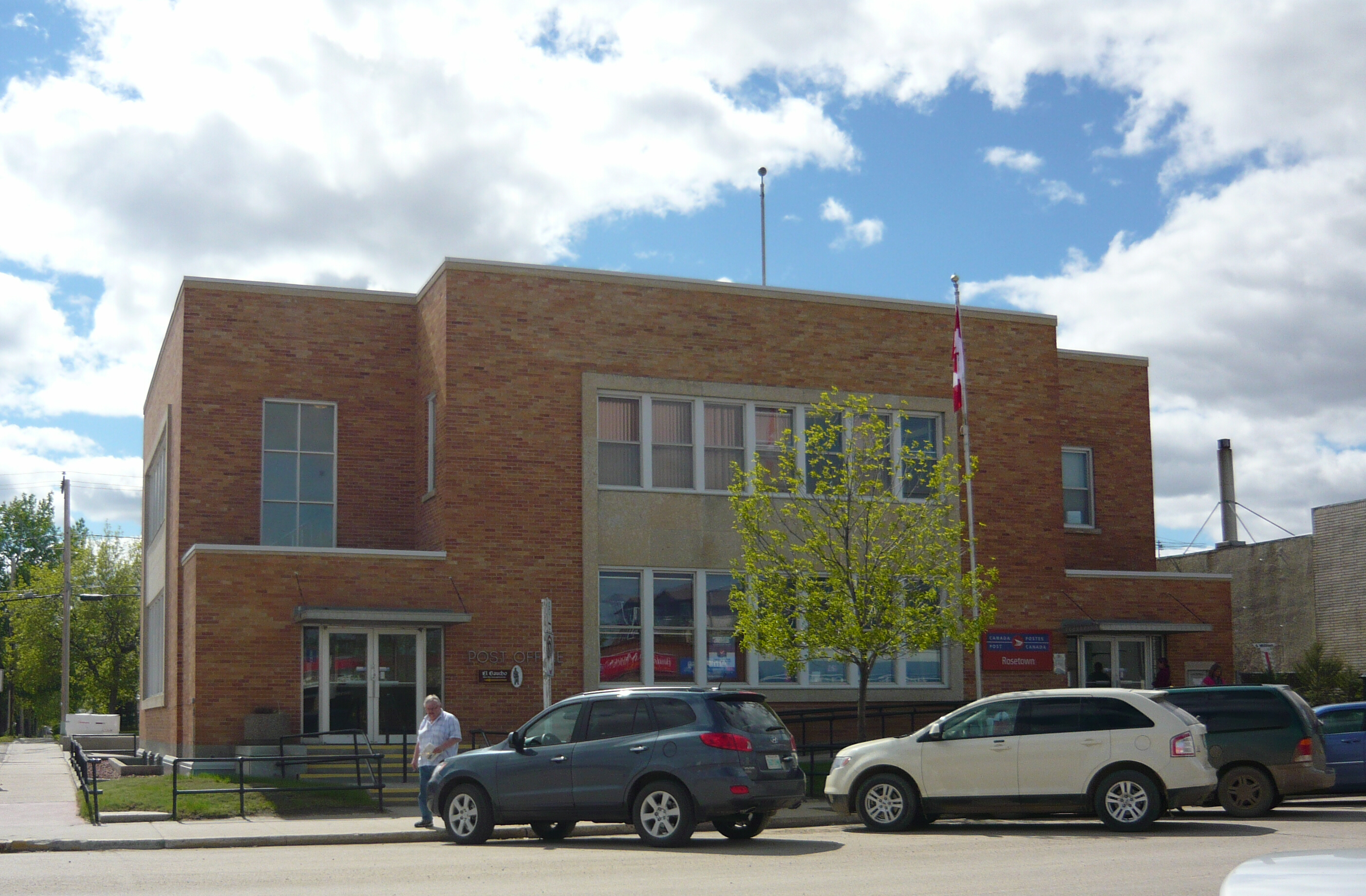 Post office, 310 Main Street (at 2nd Avenue West), Rosetown, Saskatchewan, Canada